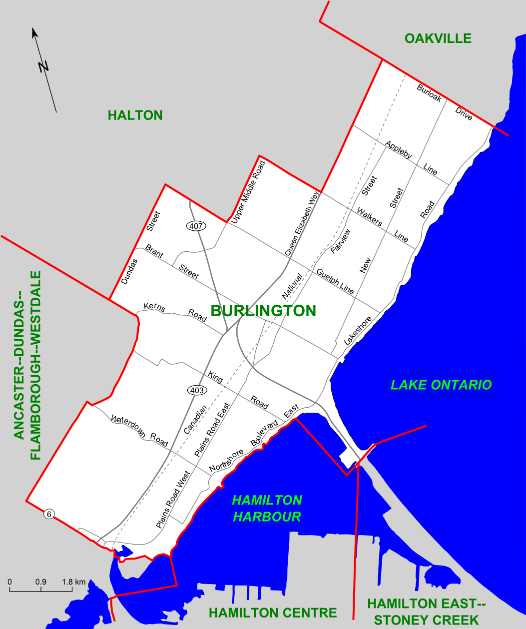 Map of the Ontario federal and provincial riding of Burlington (boundaries defined in 2003, adopted federally in 2004 and provincially in 2007)